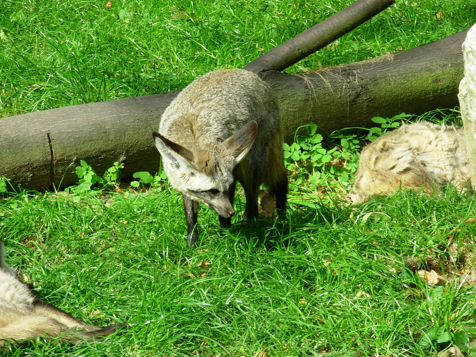 Bat-eared Fox